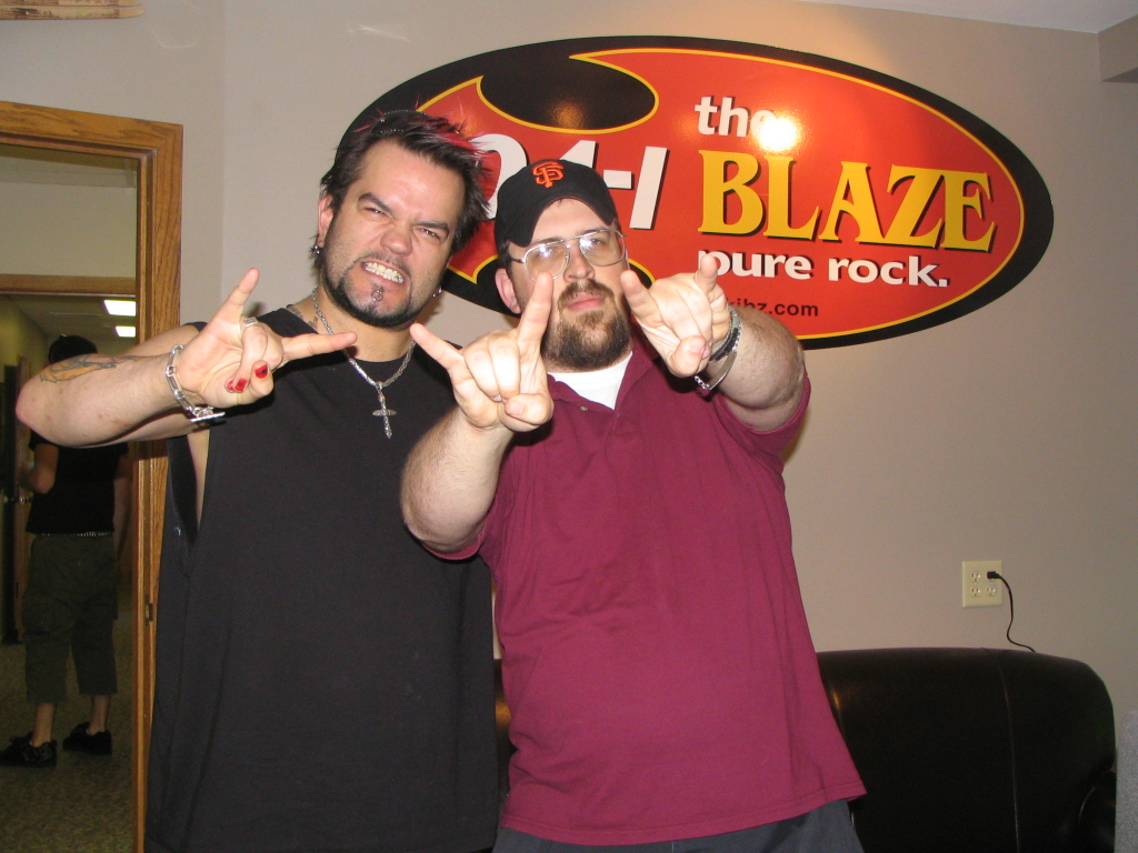 Josey Scott